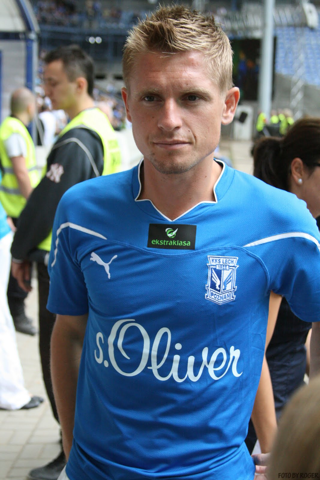 Polish football player Artur Wichniarek